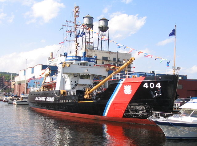 The decommissioned USCGC Sundew in her new role as a museum ship for the city of Duluth, MN. She was docked in the Minnesota Slip along with two other museum ship owned by Duluth, the lake freighter William A. Irvin and the US Army Corps of Engineers tug boat Lake Superior,, but the Lake Superior has since been recommissioned and is no longer docked in the Minnesota Slip.